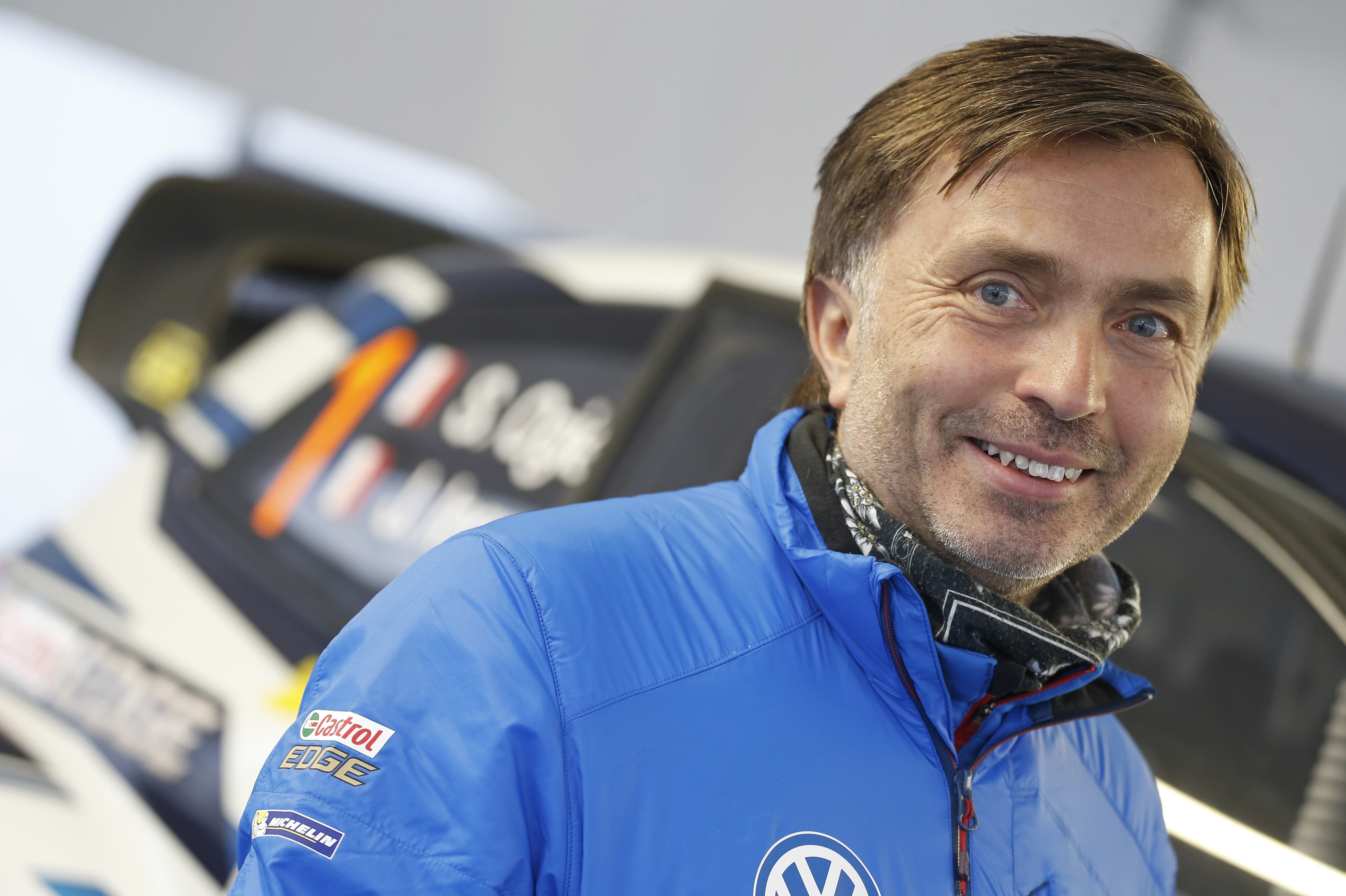 Volkswagen Motorsport team principal Jost Capito, at the 2015 Rally Sweden.